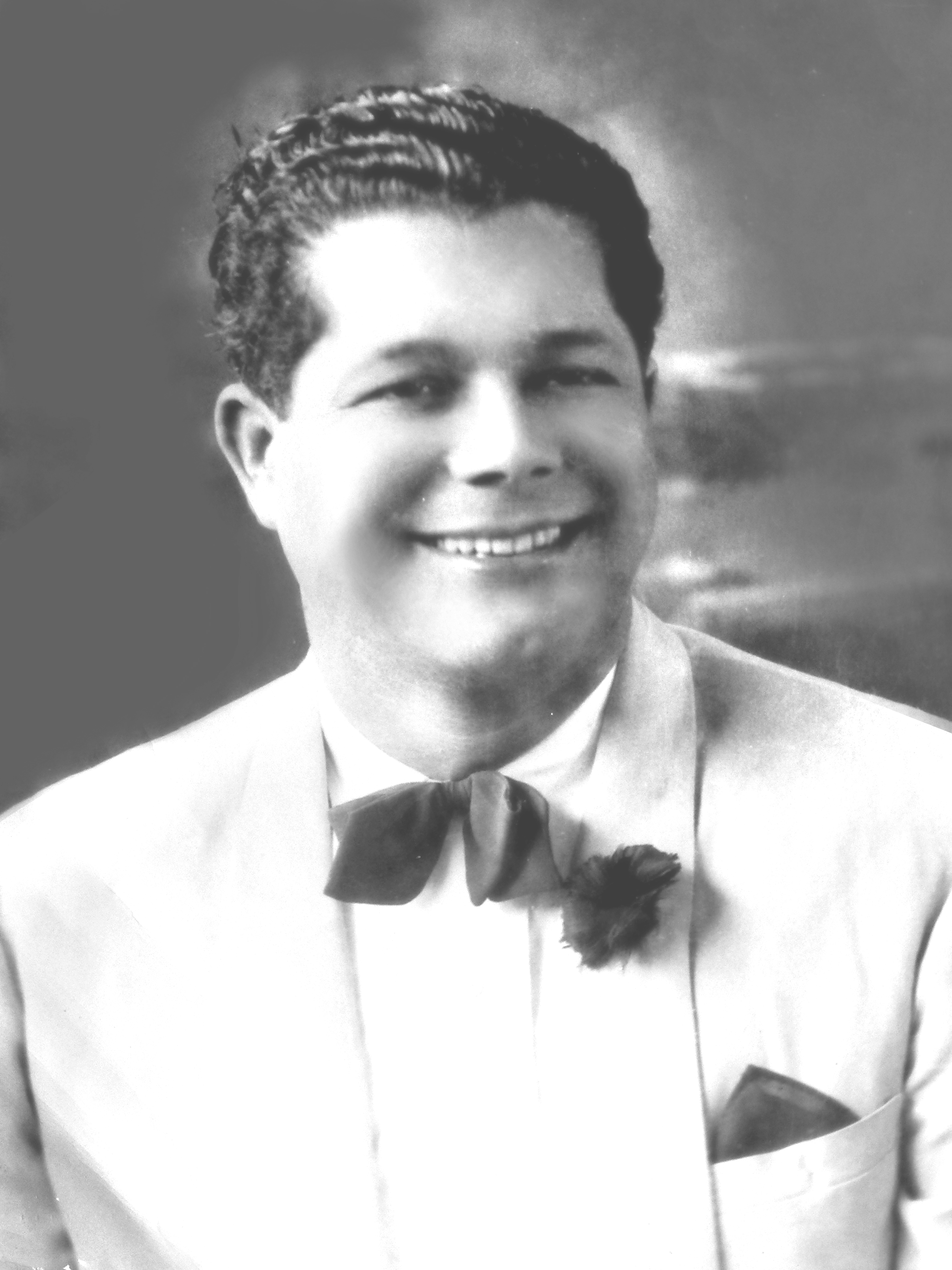 Photo 1939